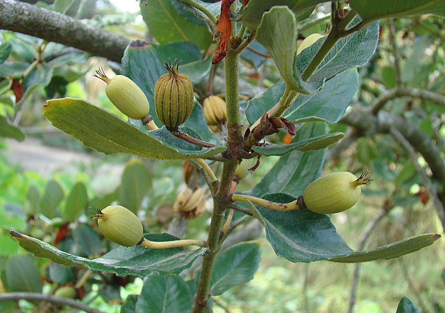 Fruit of the Ulmo tree, often placed in the Cunonaceae family. In context at